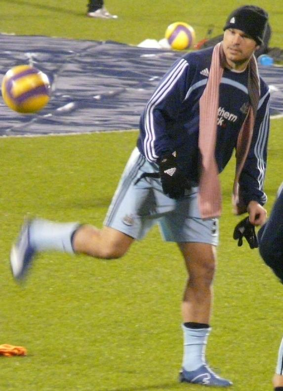 Australian football (soccer) player Mark Viduka